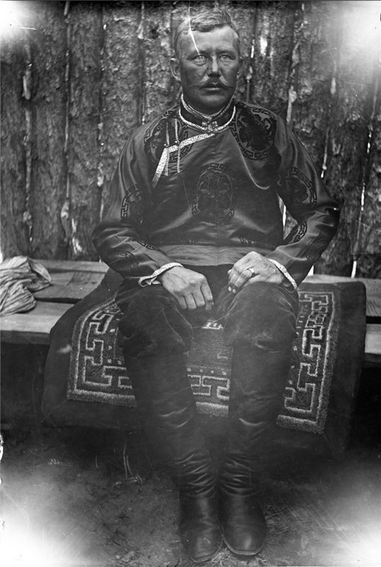 Pezukhin, Boris Petrovich